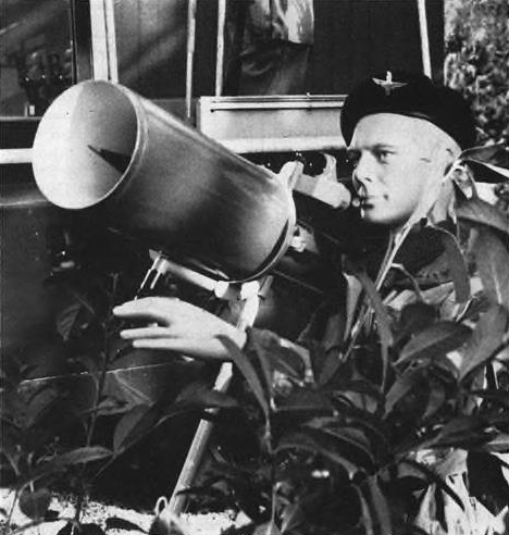 Blowpipe being presented at the Farnborough-1966